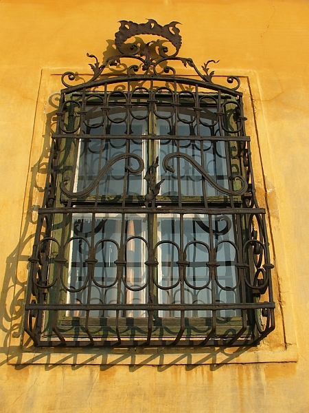 Windows in Kamalduli-houses, Tata Hungary